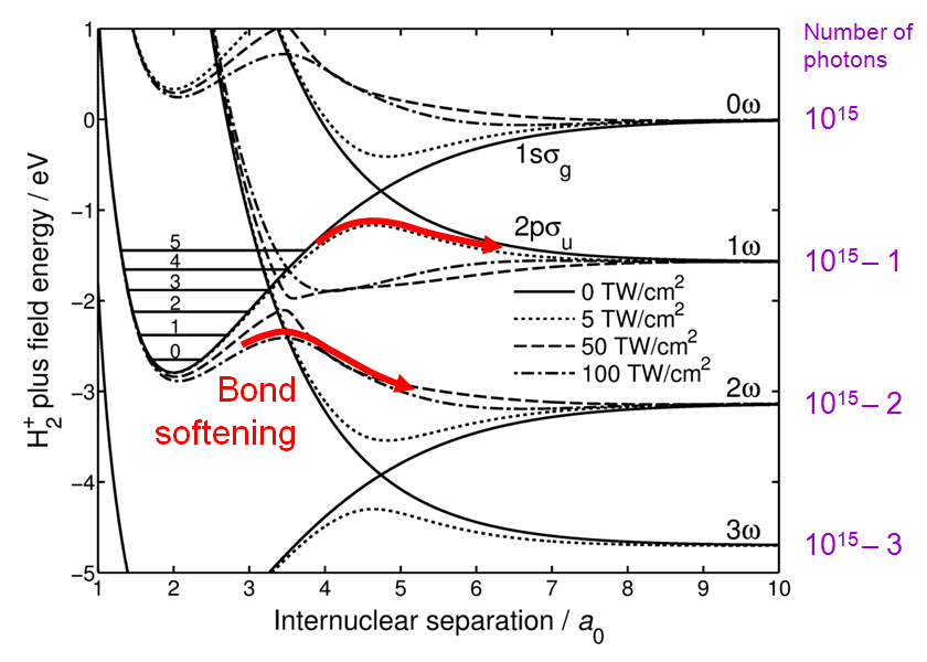 Distortion of molecular energy curves of the H2+ ion dressed in photons for increasing laser intensity. Curve crossings become anticrossings, which induces bond softening.